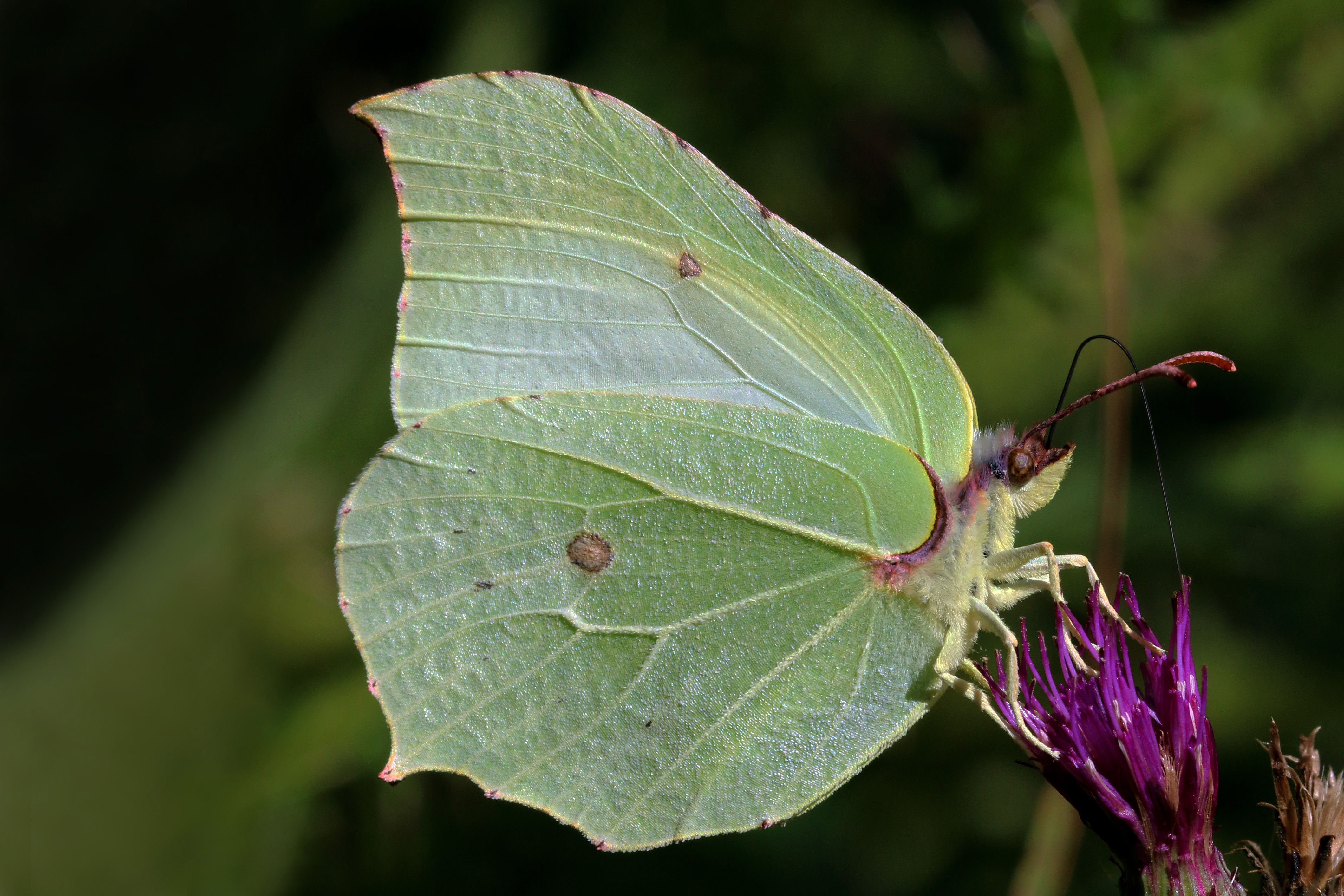 Common brimstone butterfly (Gonepteryx rhamni) male, Parsonage Moor, Oxfordshire